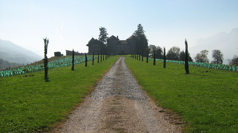 View of the Chateau Bayard in the region Rhône-Alpes (Isère), France in October 15, 2007.